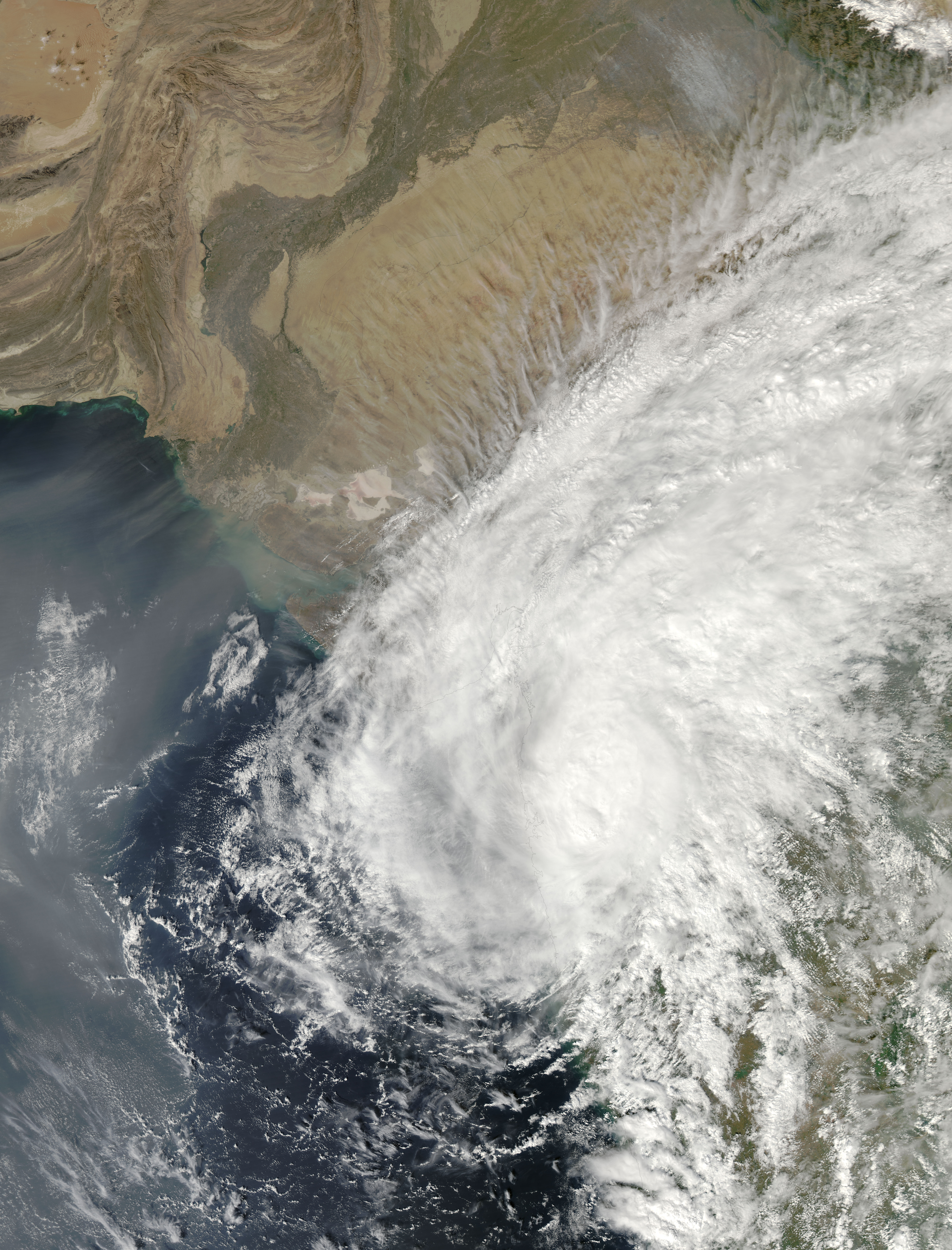 Cyclone Phyan moving inland over western India